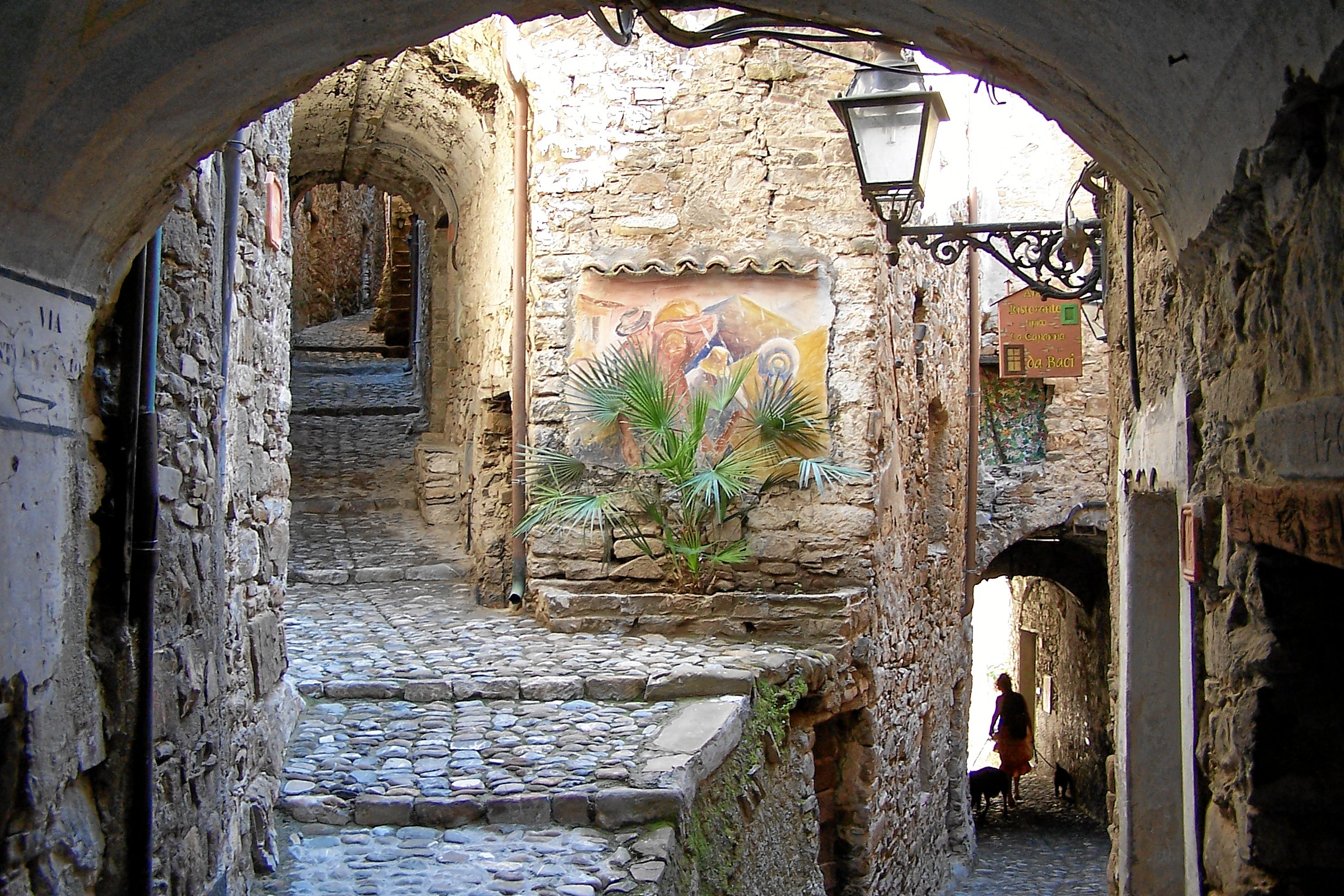 Apricale in Italy